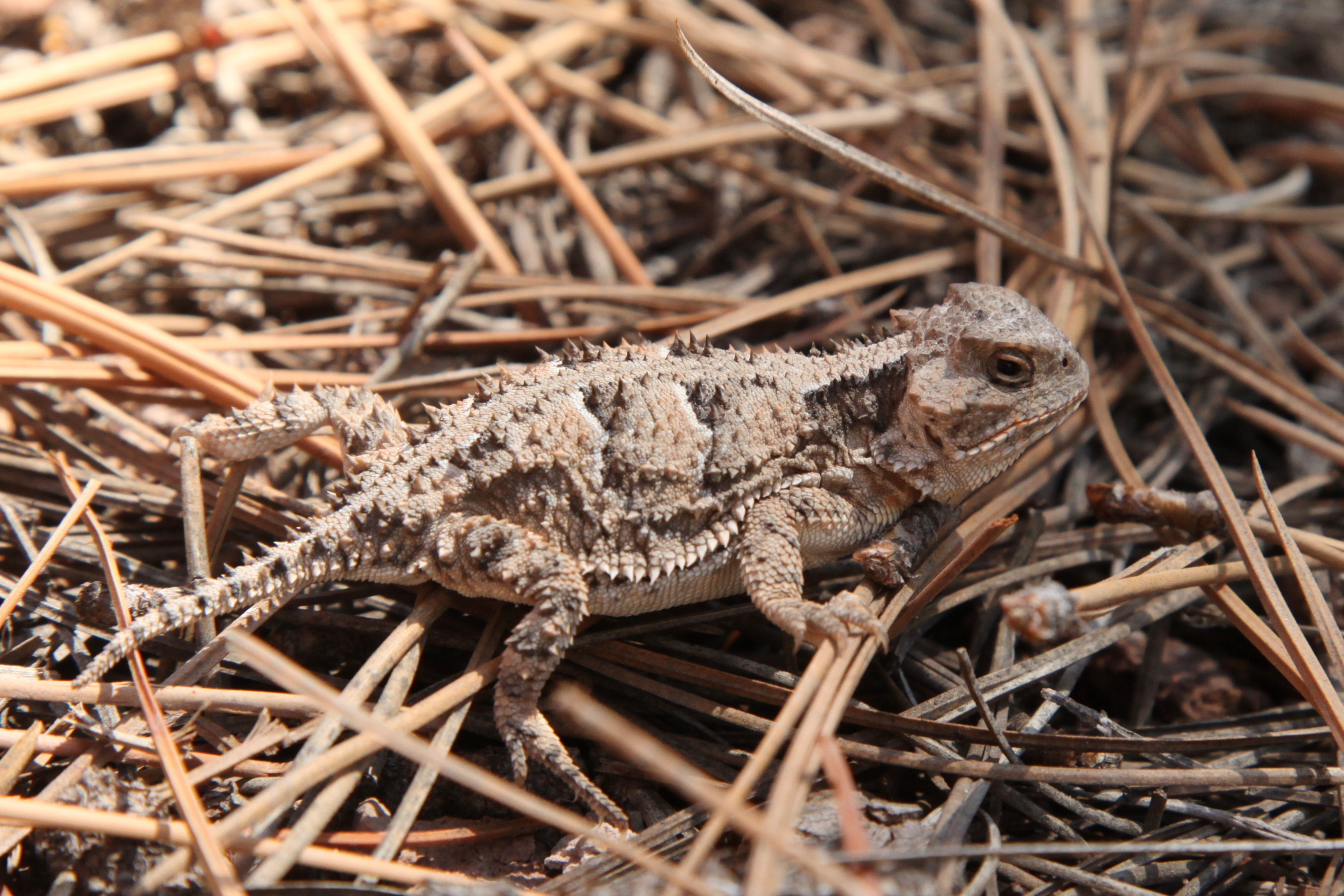 Horned Lizard in the Jemez Mountains in northern New Mexico